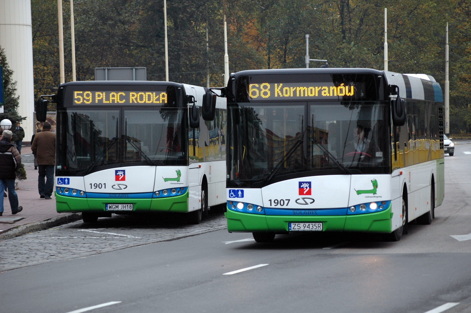 Two Solaris Urbino 12 Mk3 city bus (#1901, #1907) in Szczecin, Poland. Built 2009, SPA Klonowica operator.